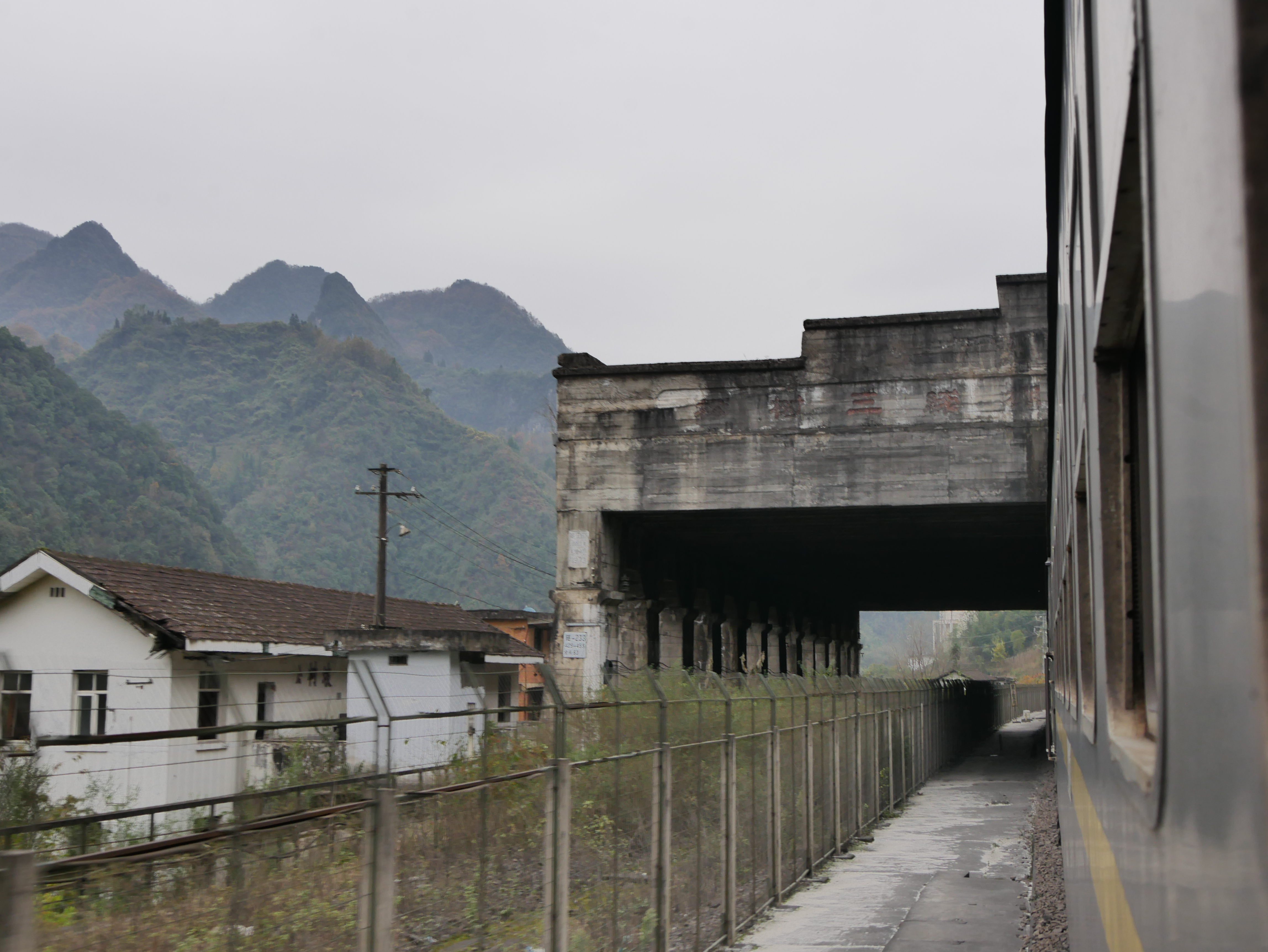 Songshupo station